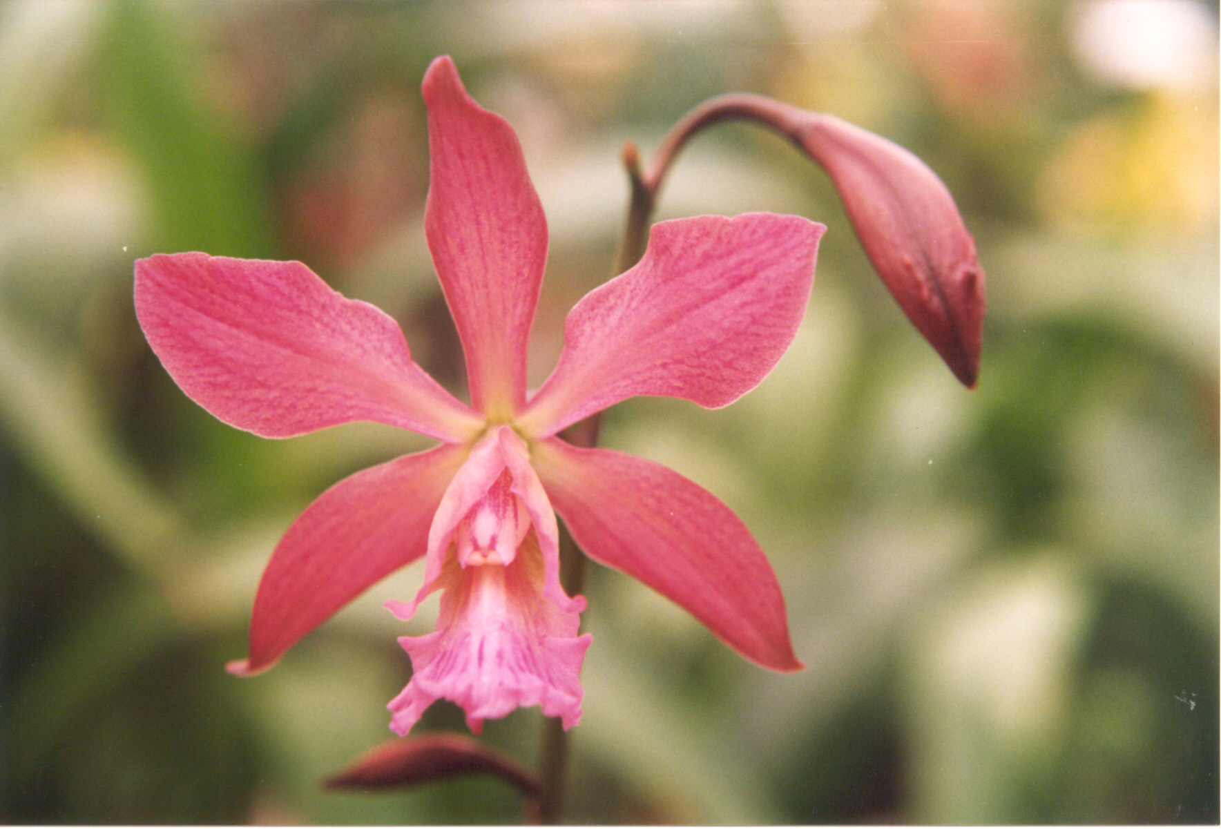 Epicattleya Dowsett Gem